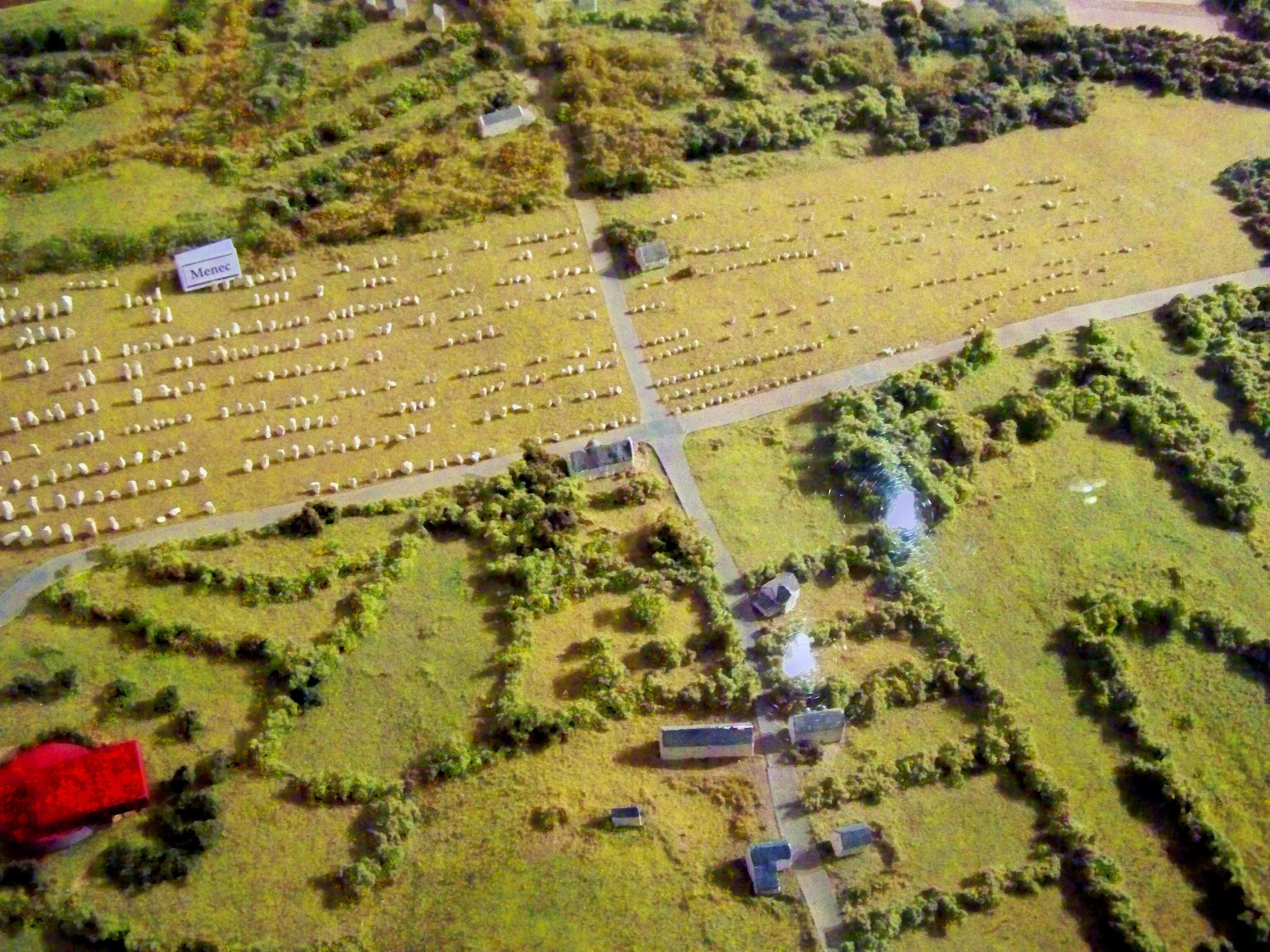 Menec alignments, Carnac, France